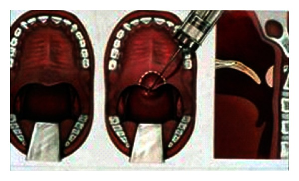 Augmentation